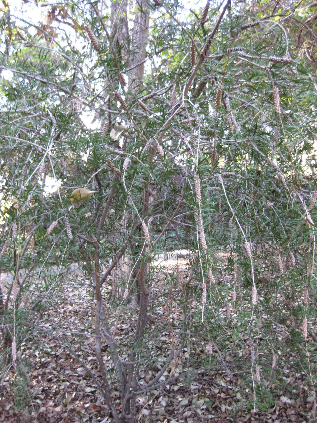 Photographed Mildred E. Mathias Botanical Garden at UCLA (Los Angeles, California) in November